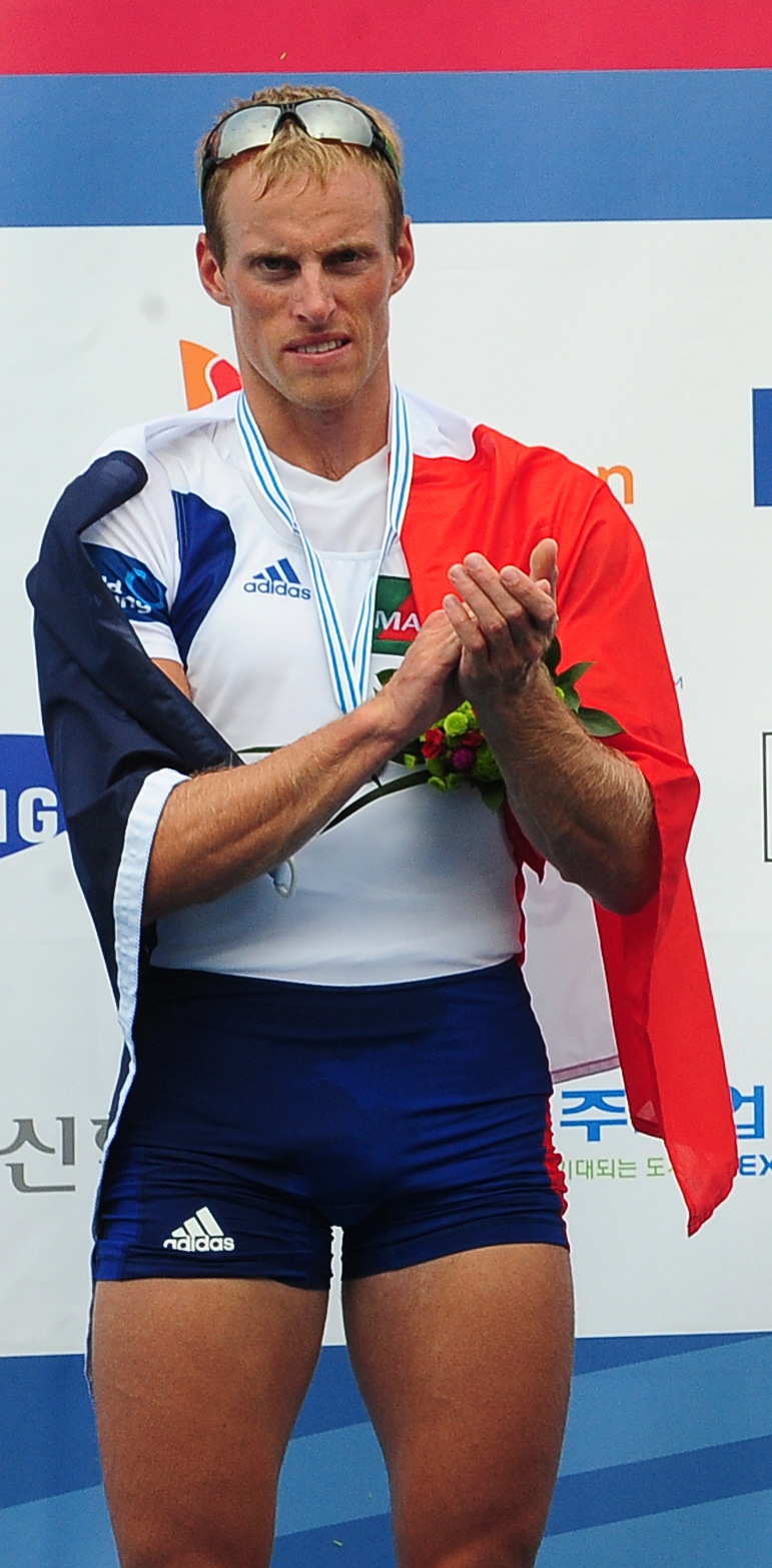 2013 Chungju World Rowing Championships